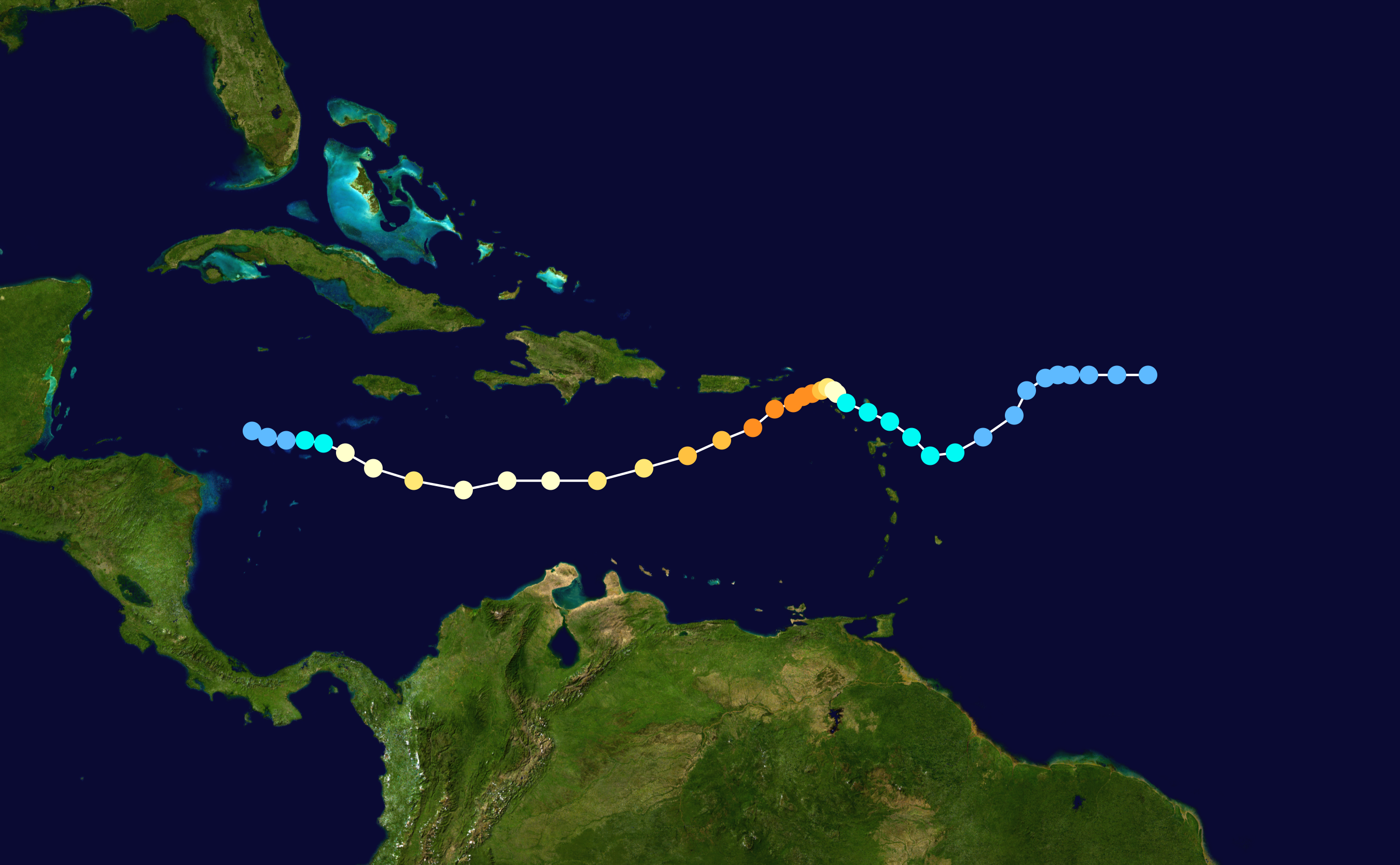 Track map of Hurricane Lenny of the 1999 Atlantic hurricane season. The points show the location of the storm at 6-hour intervals. The colour represents the storm's maximum sustained wind speeds as classified in the Saffir–Simpson scale (see below), and the shape of the data points represent the nature of the storm, according to the legend below. Saffir–Simpson scale Tropical depression≤38 mph≤62 km/h Category 3111–129 mph178–208 km/h Tropical storm39–73 mph63–118 km/h Category 4130–156 mph209–251 km/h Category 174–95 mph119–153 km/h Category 5≥157 mph≥252 km/h Category 296–110 mph154–177 km/h Unknown Storm type Tropical cyclone Subtropical cyclone Extratropical cyclone / Remnant low / Tropical disturbance / Monsoon depression